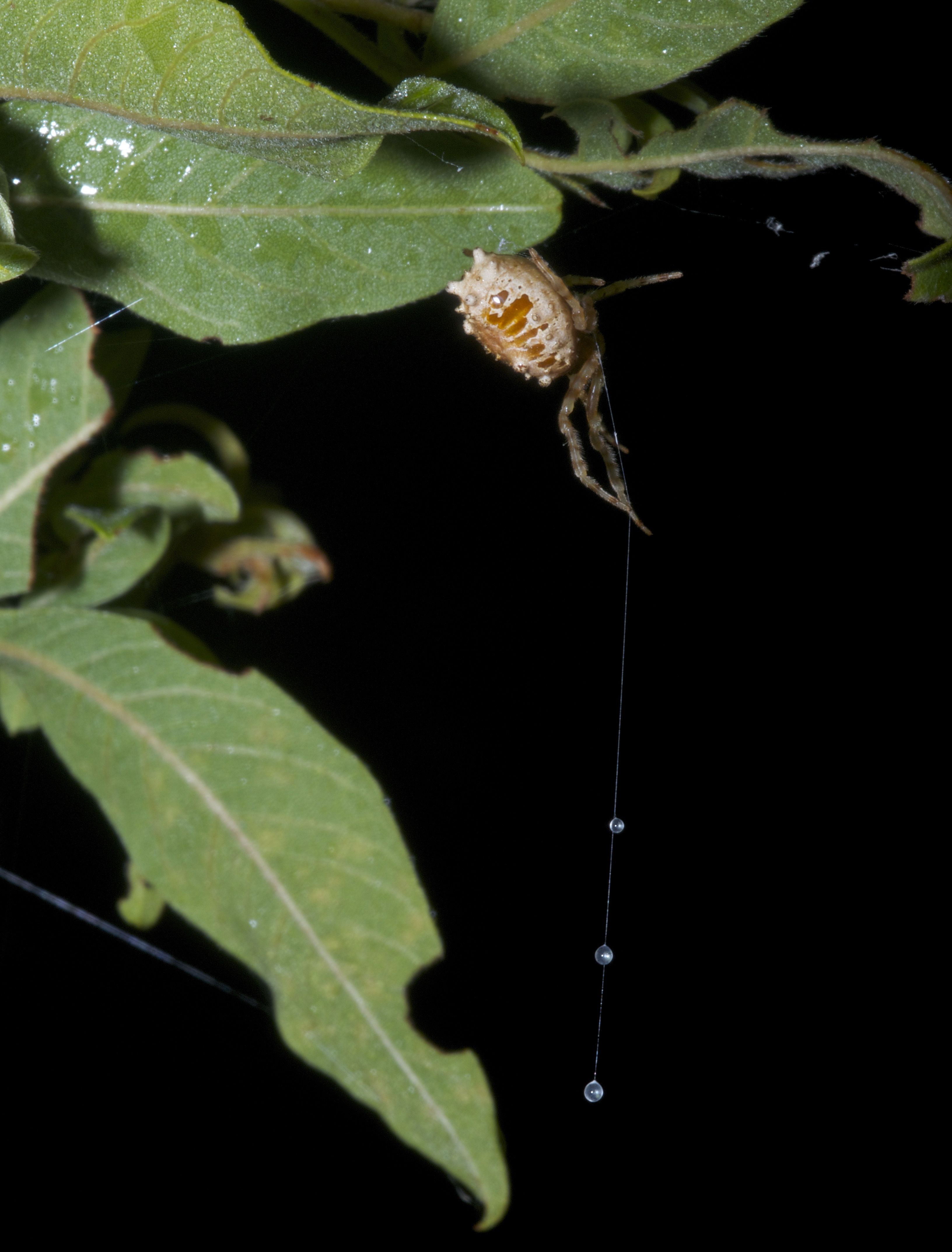 Manyane Resort walking trail, Pilanesberg, SOUTH AFRICA (Photo Sylvain REMY)